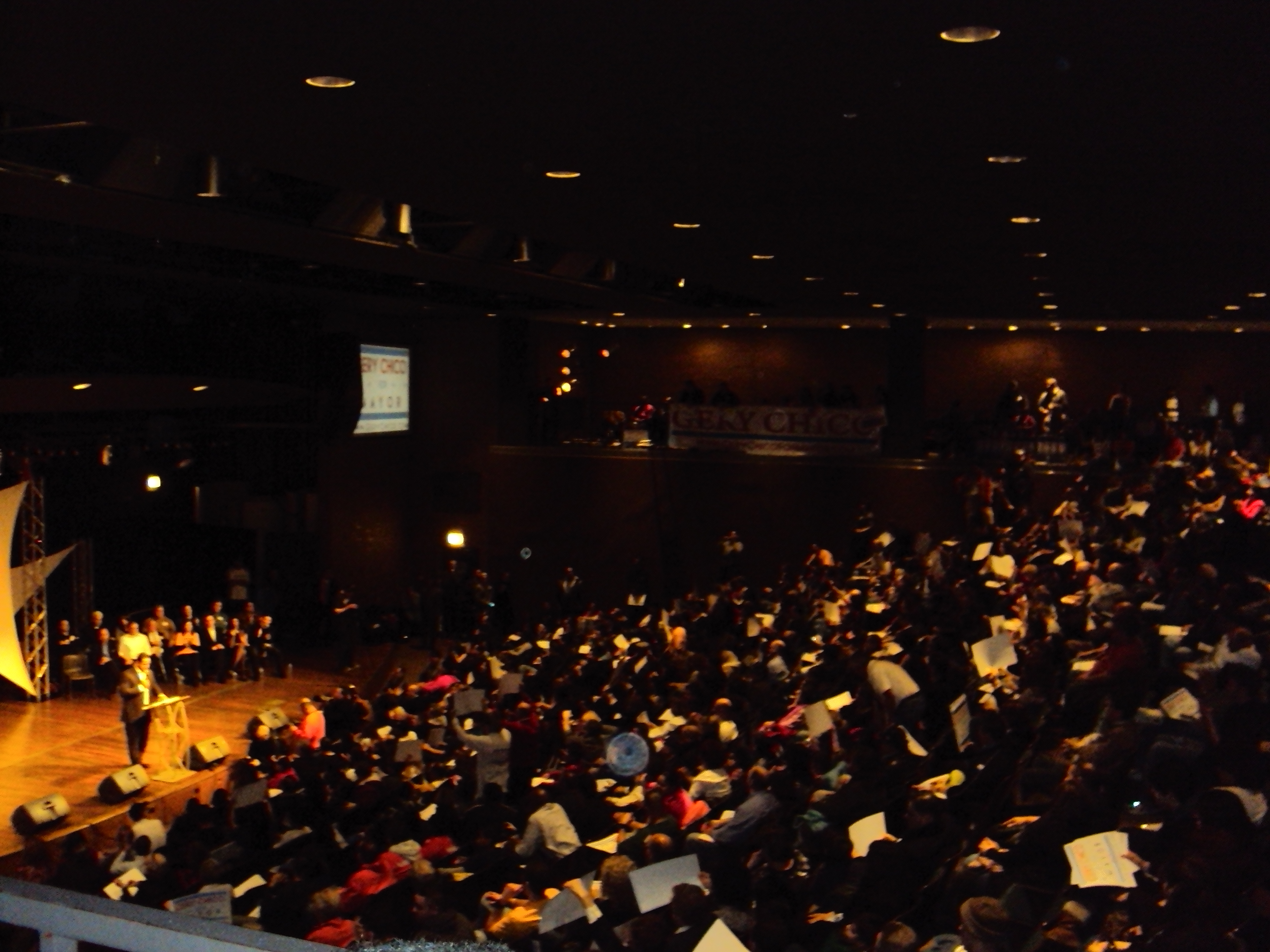 A pre-election rally for Gery Chico, candidate for Mayor of Chicago, held at Roberto Clemente High School on February 13, 2011.